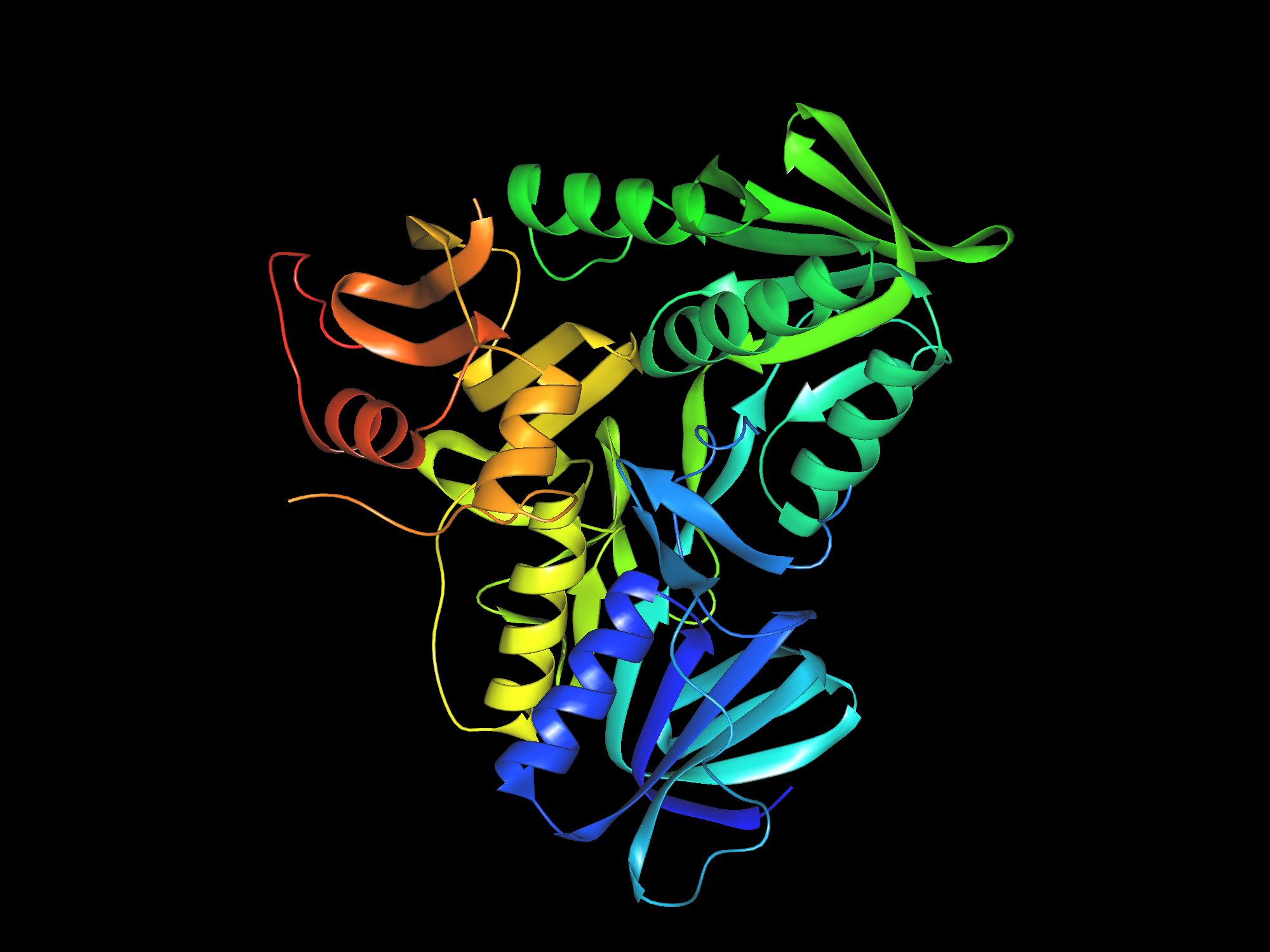 Structure of AIF factor